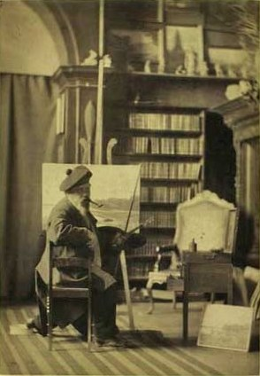 Carl Frederik Aagaard (1833-1895), Danish landscape painter